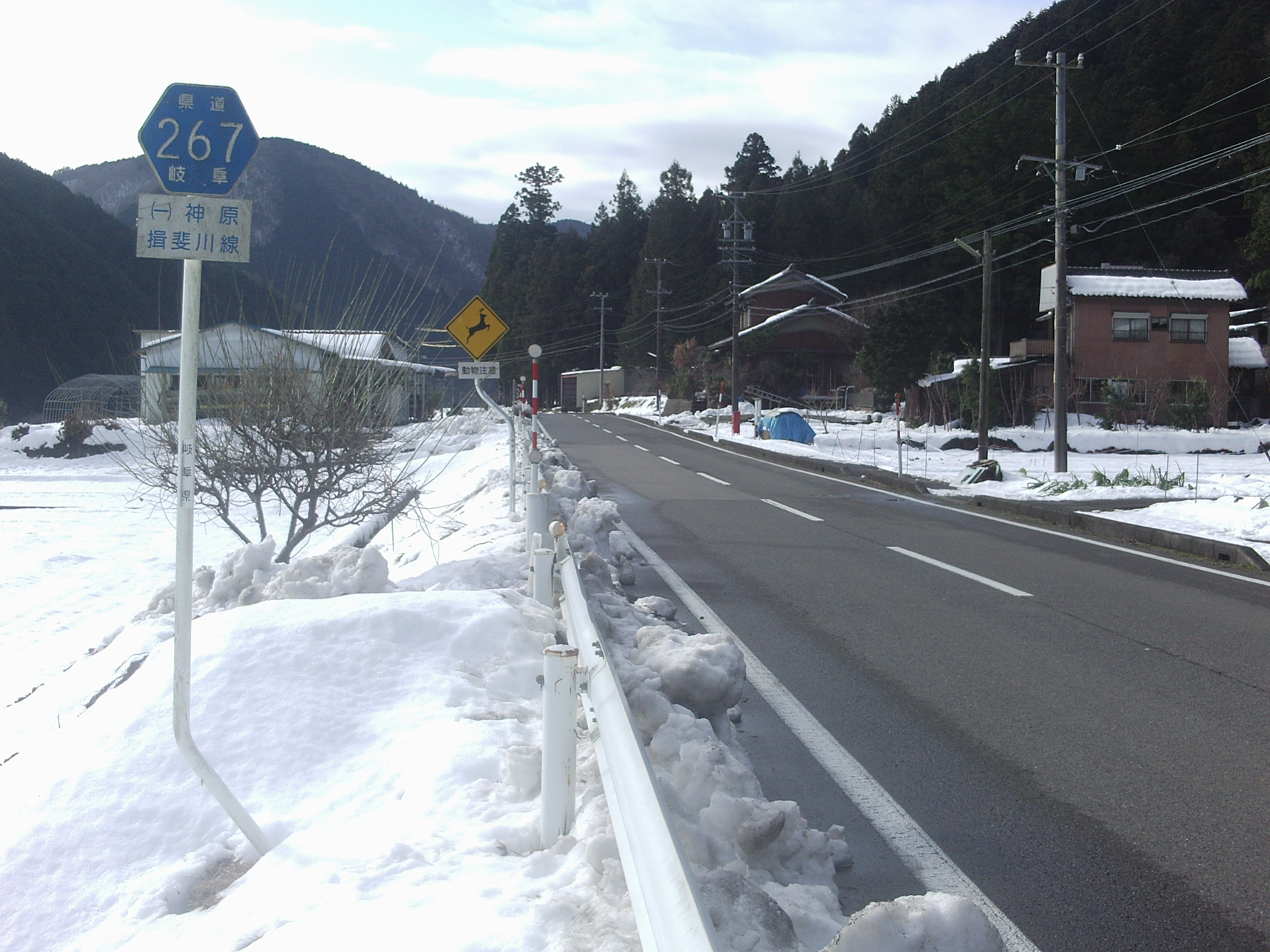 Gifu prefectural road No.267 in Tanigumi Kanbara, Ibigawa town, Ibi-gun, Gifu.